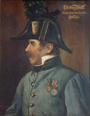 Portrait of the Tyrolean freedomfighter against Napoleon I